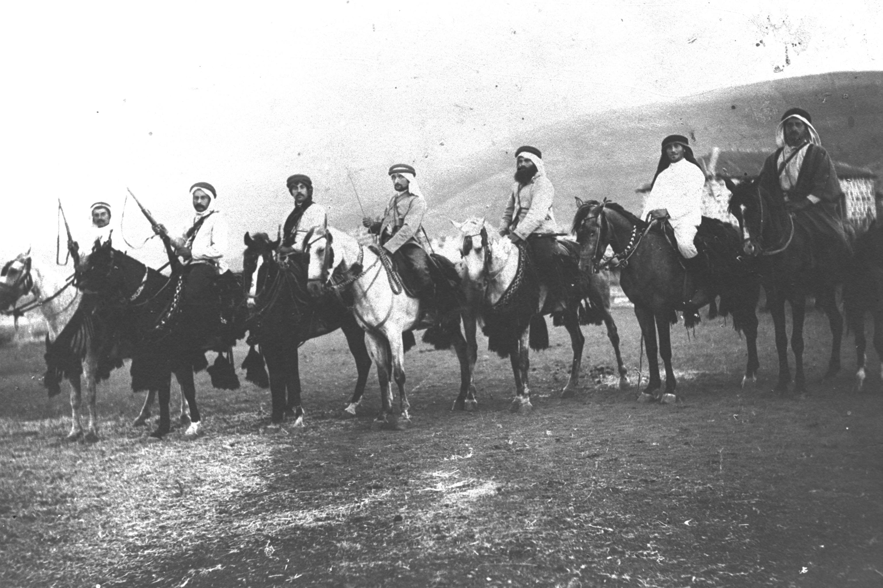 HASHOMER" MEMBERS IN KFAR GILADI. חברי ארגון "השומר" בכפר גלעדי. משמאל לימין: מאיר חזנוביץ, יהודה פרוסקורובסקי, יוסף נחמני, גד אביגדורוב, צבי בקר, ישראל גלעדי ויצחק נדב